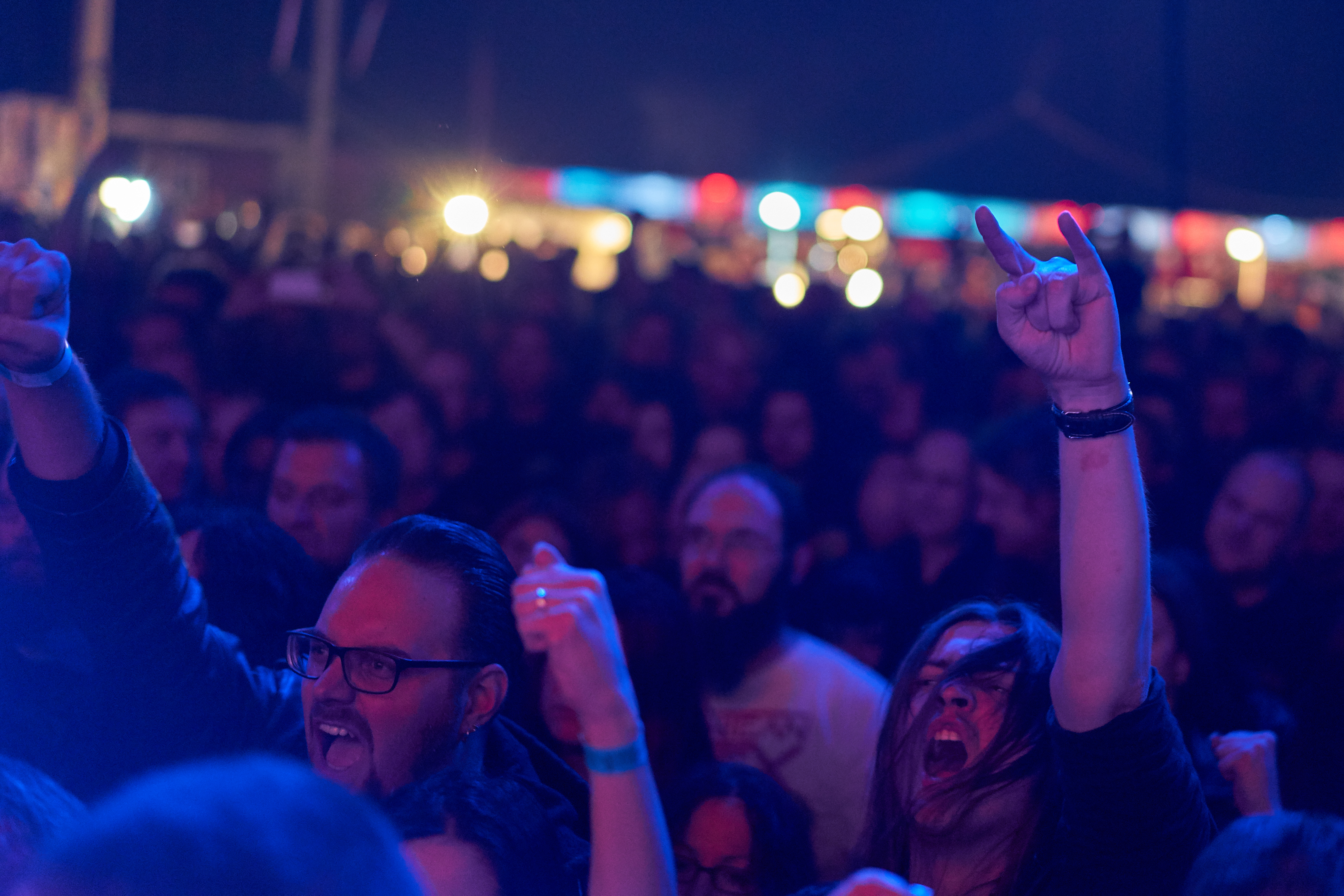 Visitors of the tenth "Hammer of Doom"-Festival in Würzburg, Germany, 2015